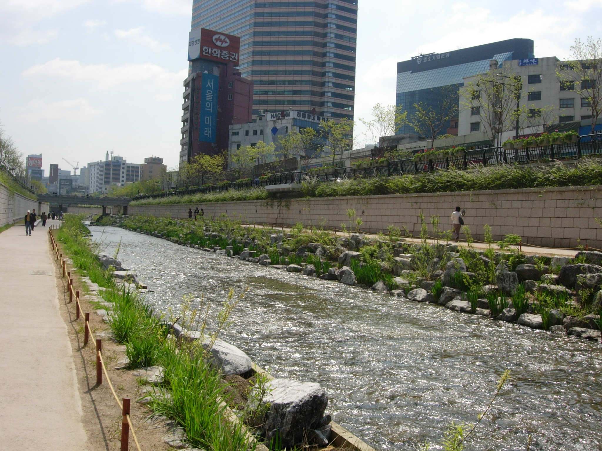 Cheonggyecheon, Seoul, South Korea